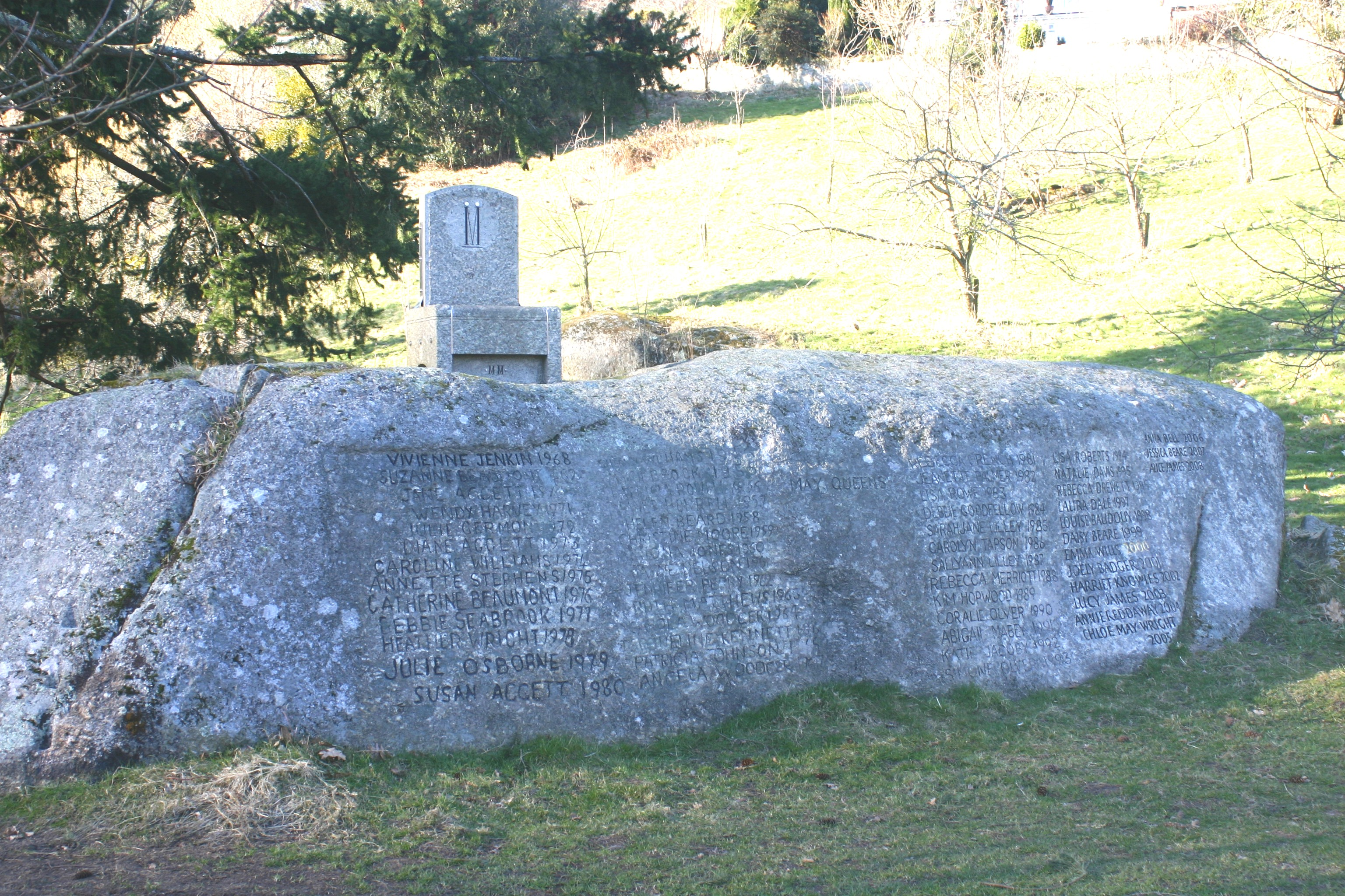 May Queen crowning rock in Lustleigh, Devon